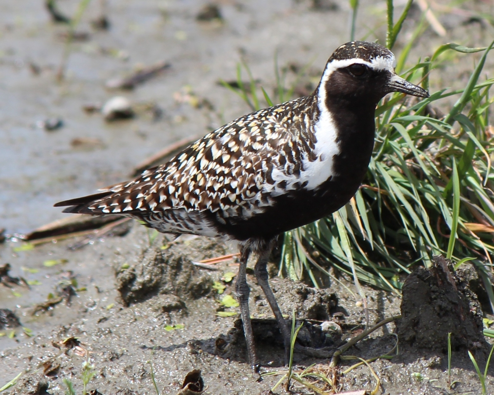 Pluvialis fulva (Pacific Golden Plover) in Japan